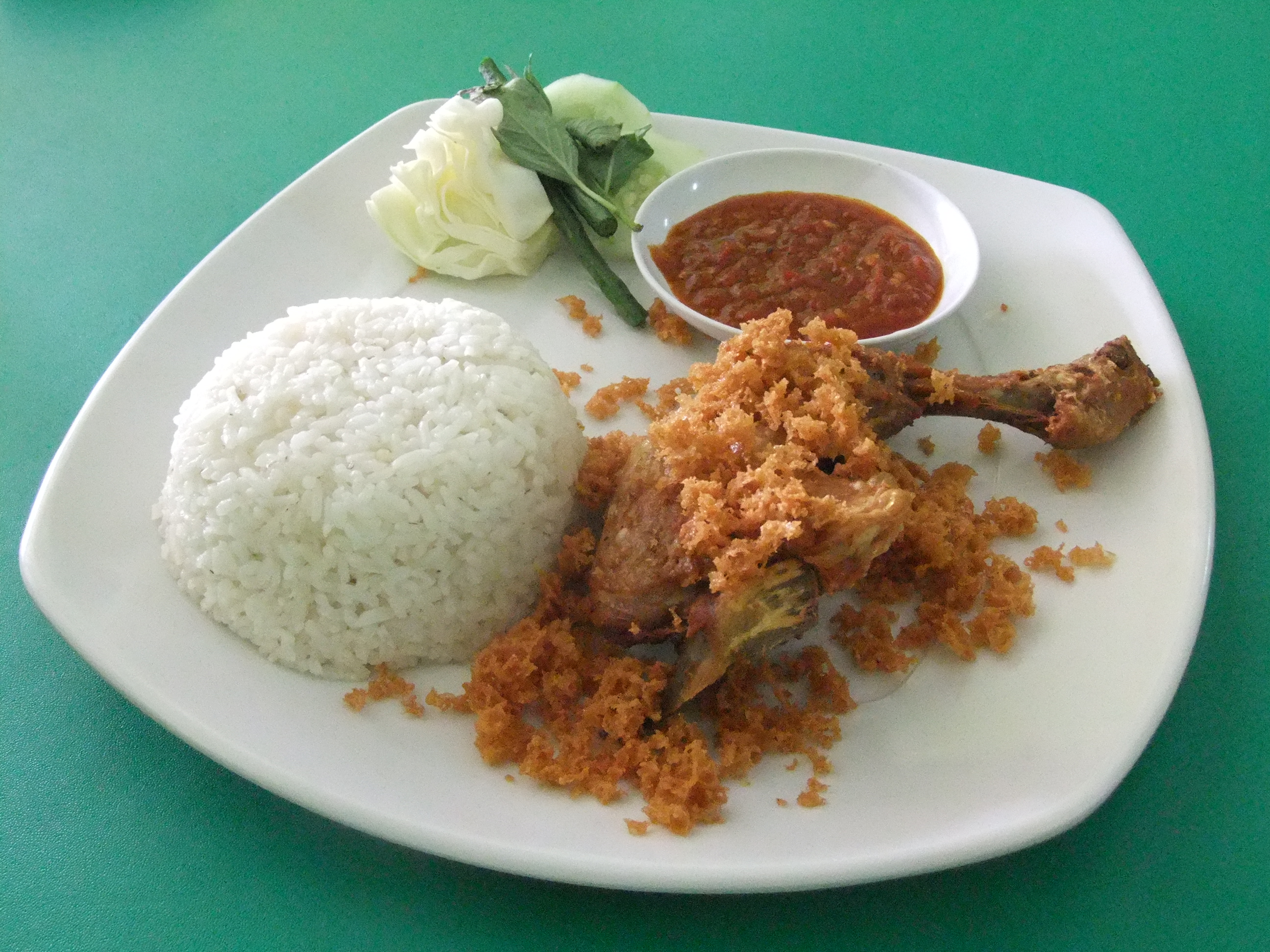 Ayam Goreng Kalasan (free range chicken)